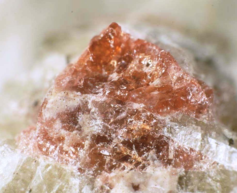 Red glassy raslakite is nepheline-syenite. Rare eudyalite group mineral, occurs only at 2 places worldwide, this one from the type locality: Karnasurt Mountain, Lovozero Massif, Northern Region, Russian Federation.